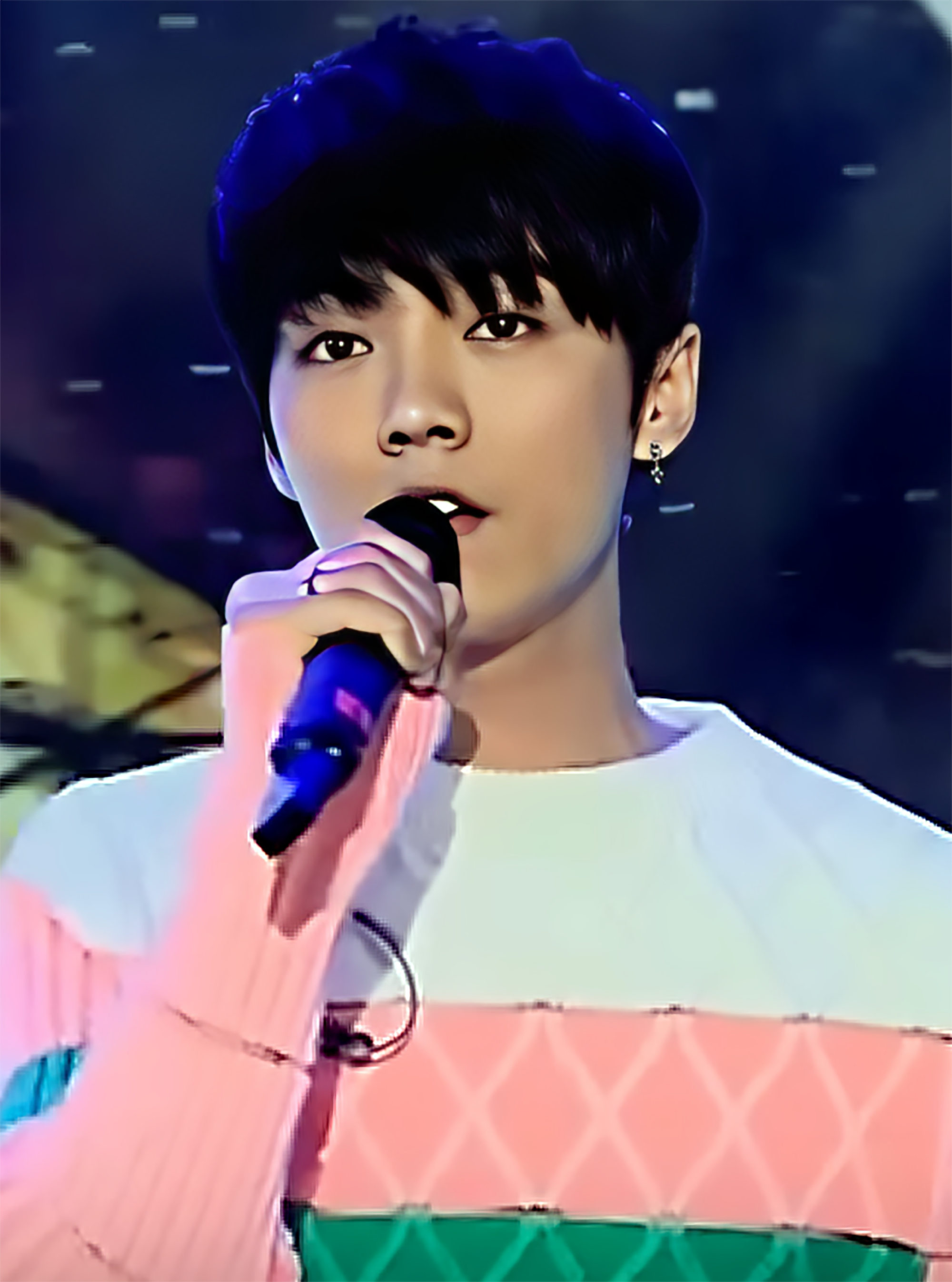 Lu Han performing "Our Tomorrow" at Dream Star Partner on January 2, 2015.